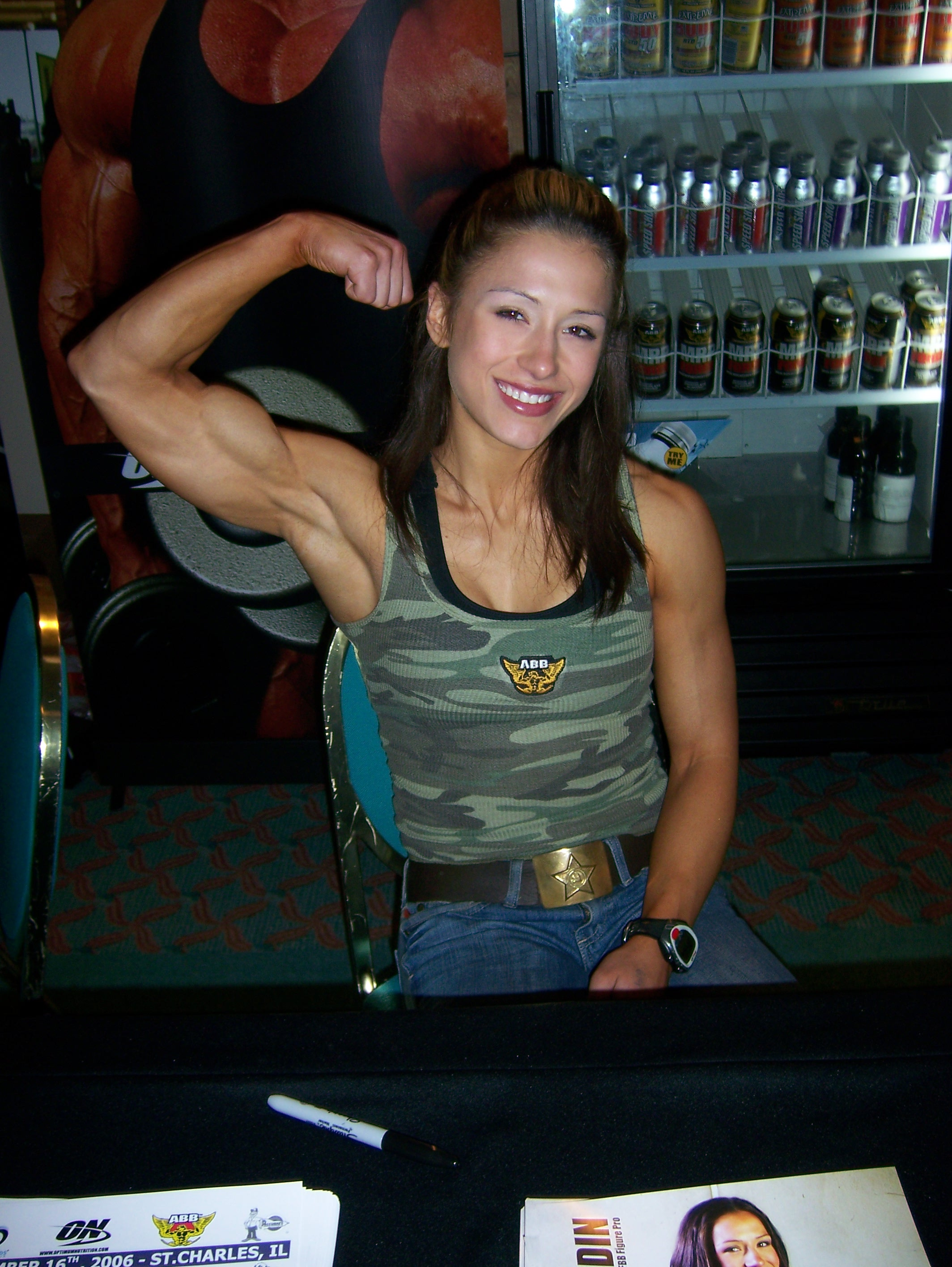 [NOTE: The number of views on this image has skyrocketed. Please let me know how you found it!] Pauline Nordin again.